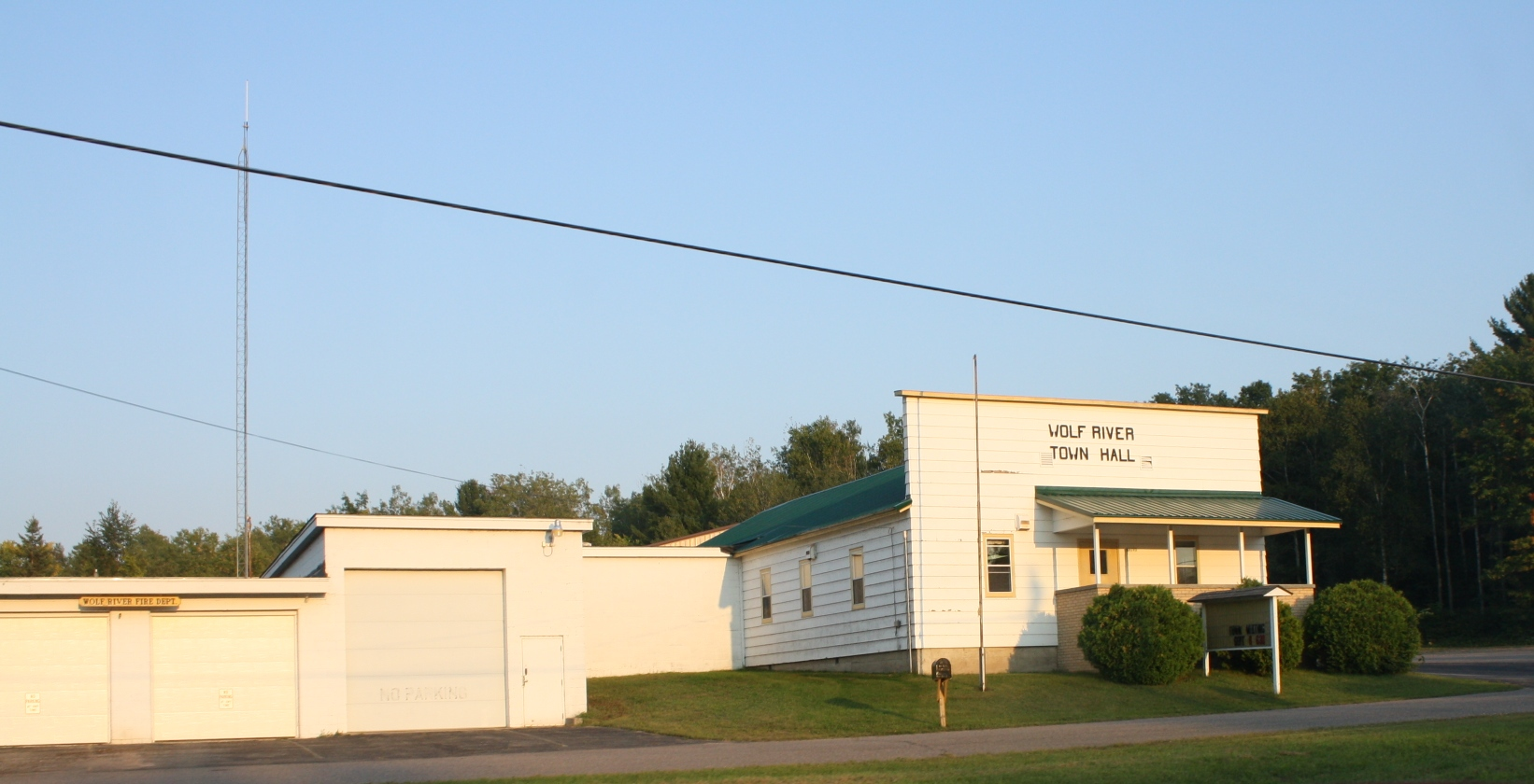 Looking east at the town hall and fire station for Wolf River, Langlade County, Wisconsin in Langlade County, Wisconsin along Wisconsin Highway 55.